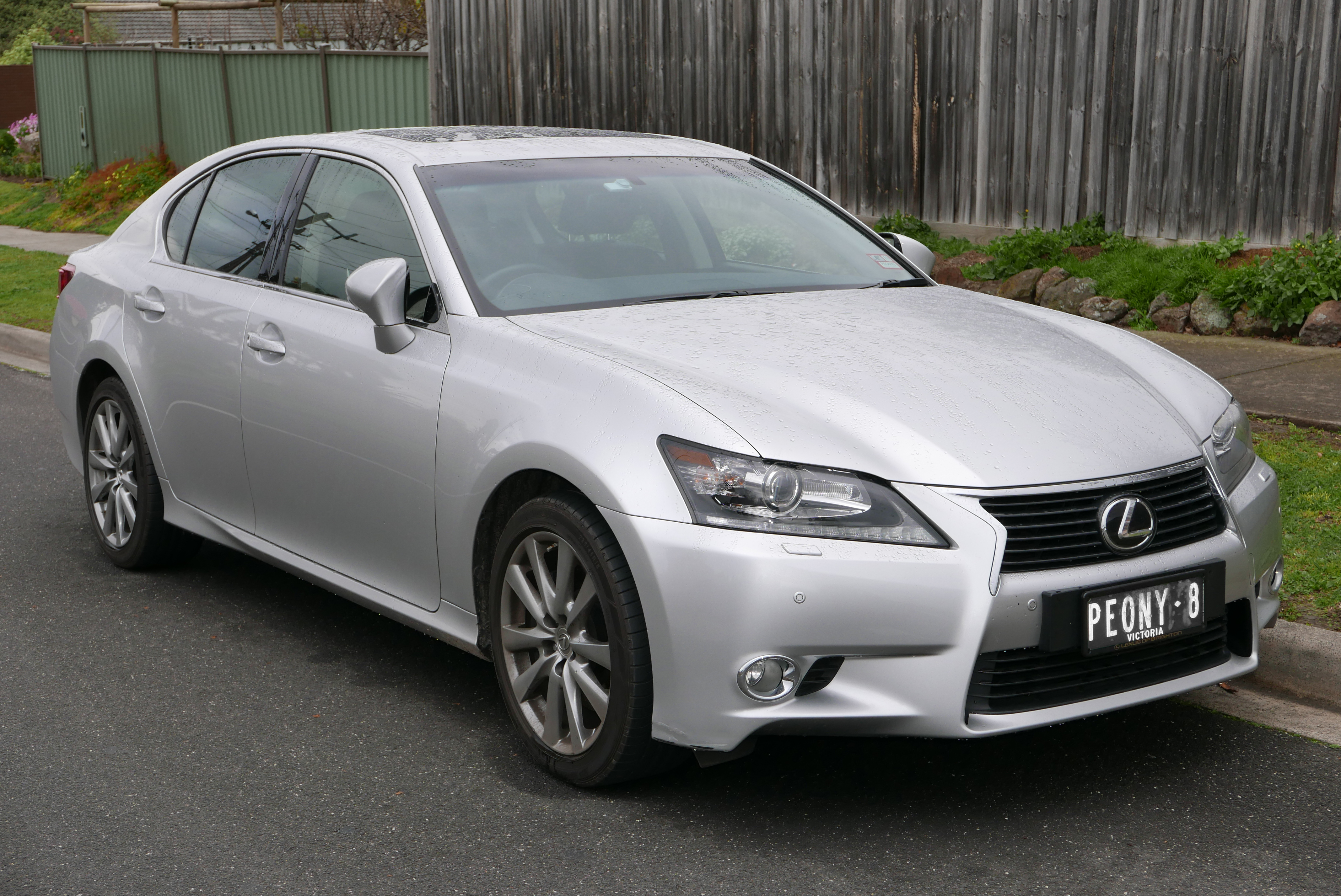 2012 Lexus GS 250 (GRL11R) Luxury sedan. Photographed in Doncaster, Victoria, Australia. Vehicle registration enquiry resultsJurisdictionVictoriaRegistrationPEONY8Chassis codeJTHBF1BL905007034Engine code4GR0860373Compliance date2012-10Year of manufacture2012